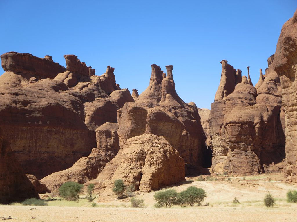 These hoodoos overlook Elephant Rock in the Tokou East area of the Ennedi Mountains, Chad, Central Africa.